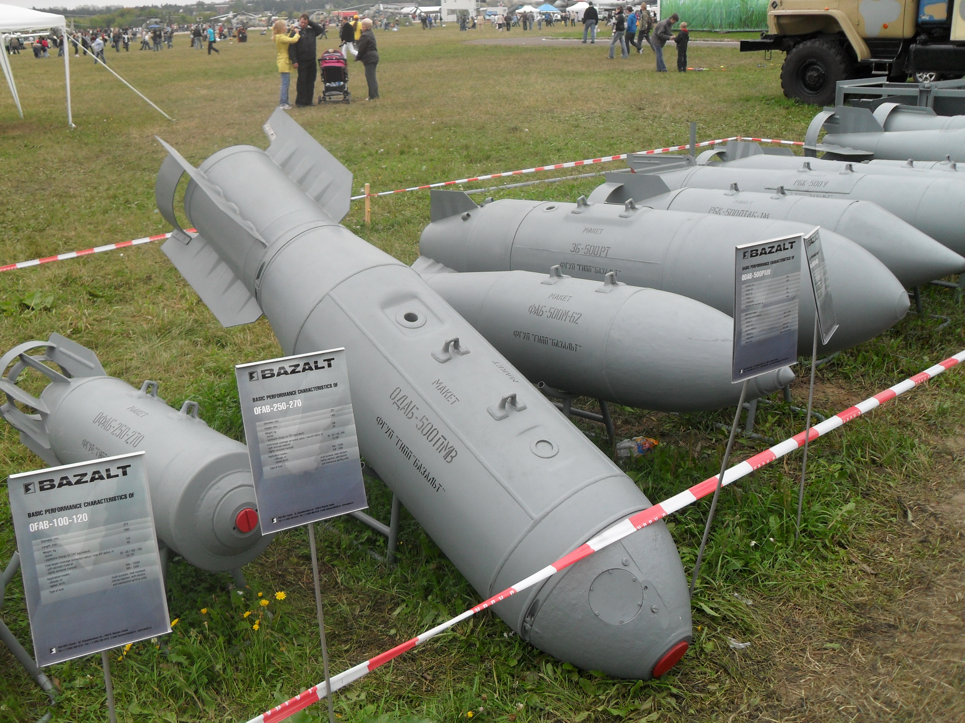 Fuel-Air Explosion Aircraft Bomb ODAB-500PMV. Mockup. MAKS'2009 (International Aviation and Space Salon). Zhukovskiy, Russia.